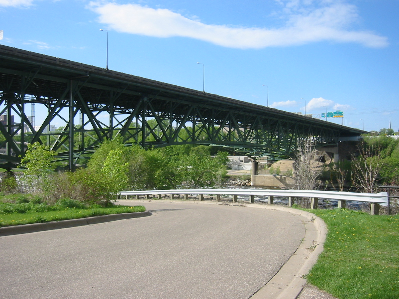 The south end of the I-35W Mississippi River Bridge, taken from the east side of the bridge. This photo was taken on 2006-05-06, well before its collapse on 2007-08-01.